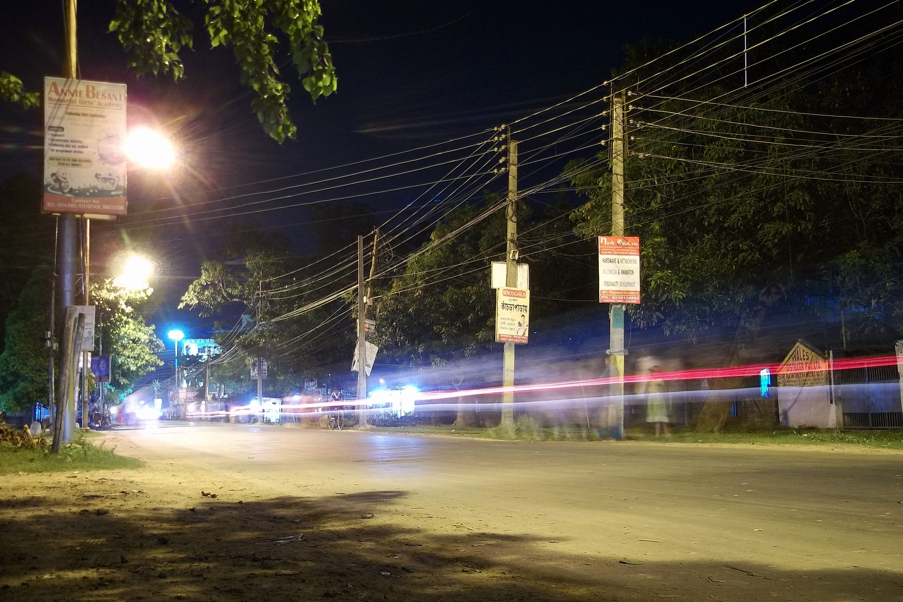 A view of Kabiguru Rabindra Path in Kanchrapara near Milannagar.